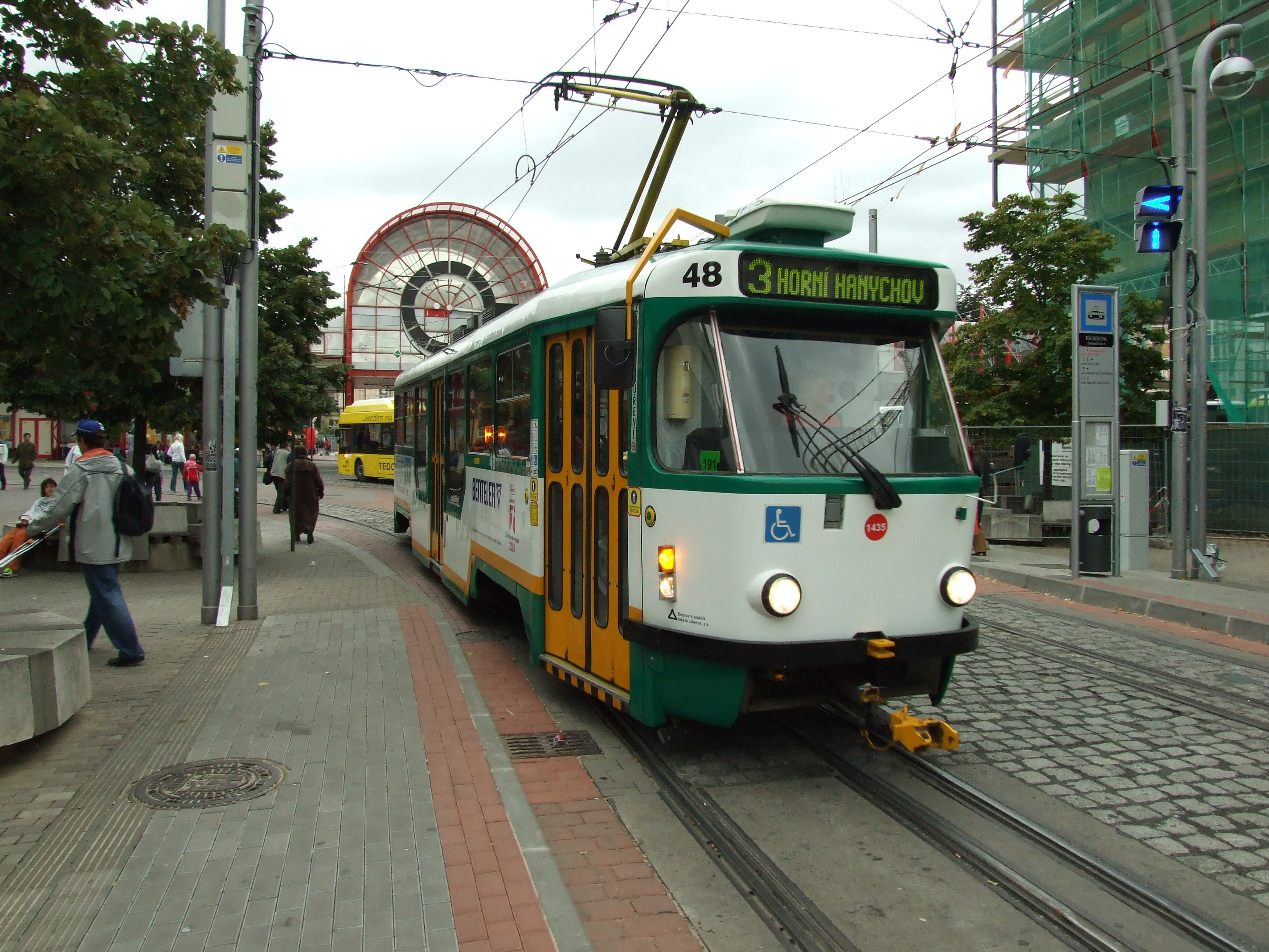 Tram transport in Liberec and Jablonec, Liberec region, CZhelp